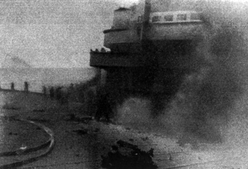 The U.S. Navy aircraft carrier USS Hornet (CV-8) on fire after a Japanese D3A1 "Val" dive-bomber crashed into her island during the Battle of Santa Cruz on 26 October 1942.